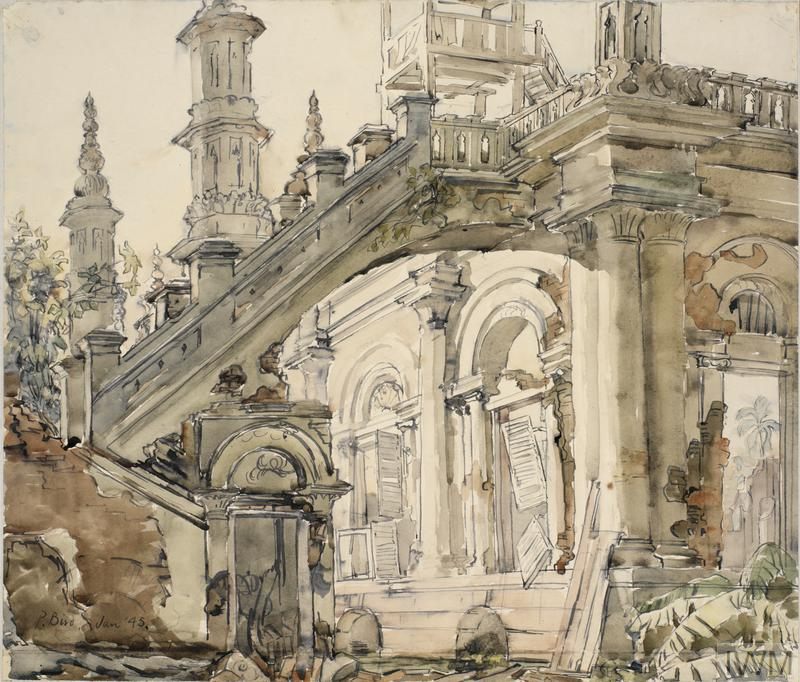 A ruined overgrown temple with a stone staircase to the roof where a wooden viewing platform is situated.